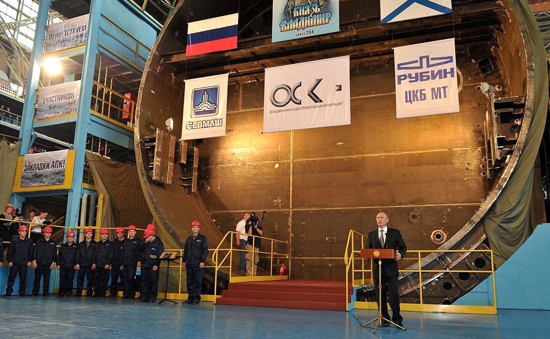 At a laying-down ceremony for Knyaz Vladimir nuclear-powered submarine at Sevmash shipyard.